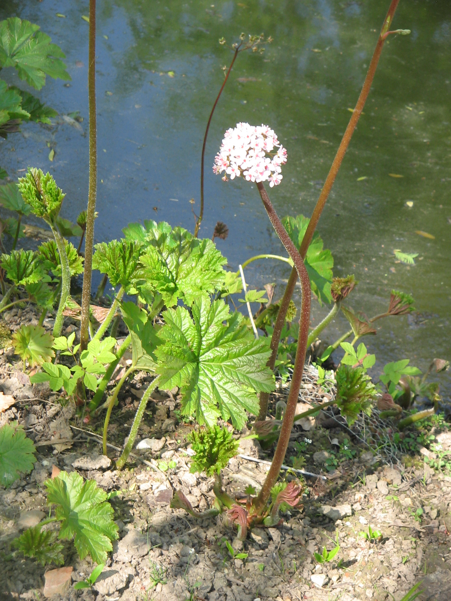 Darmera peltata